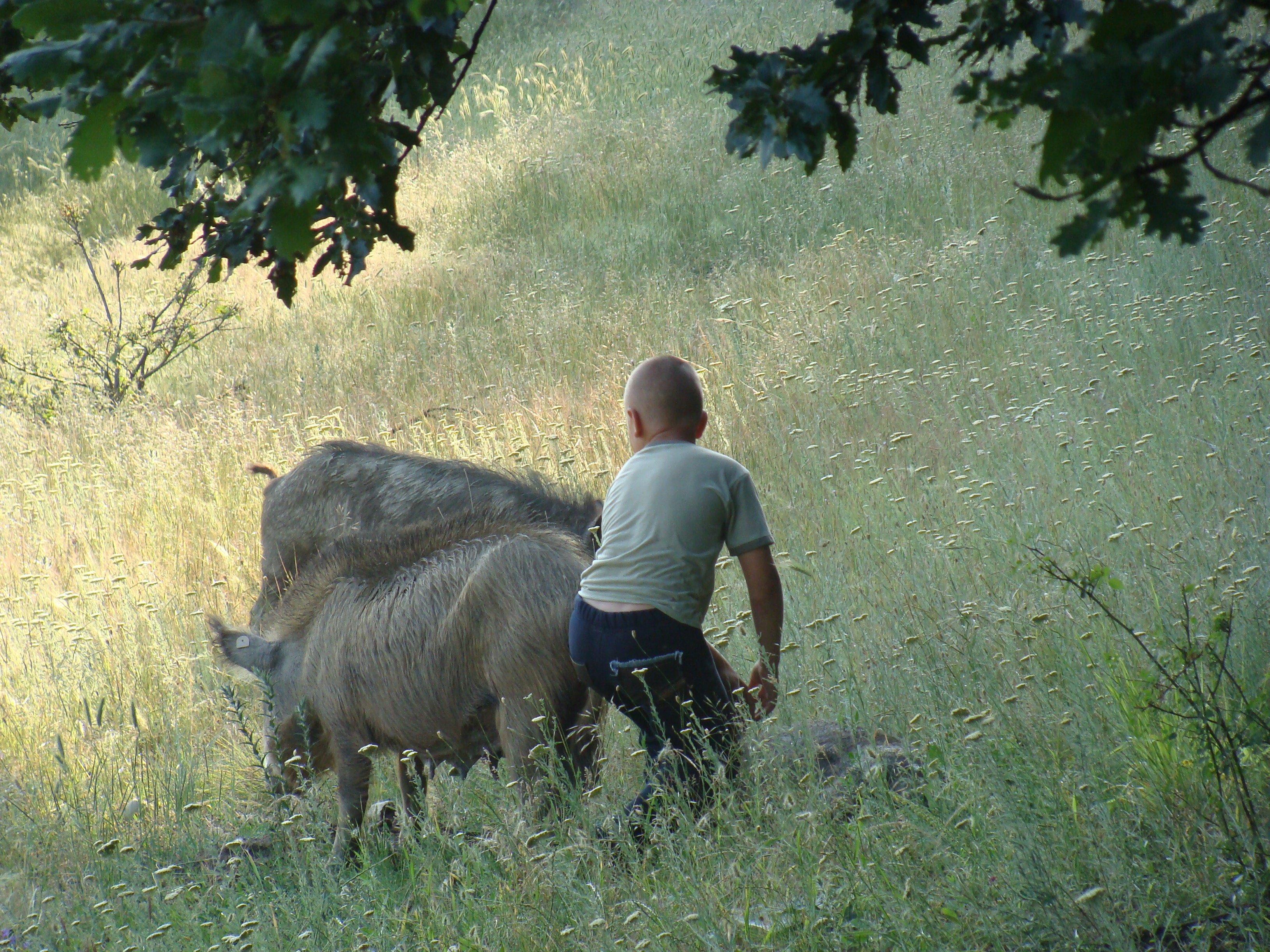 East Balkan Swine